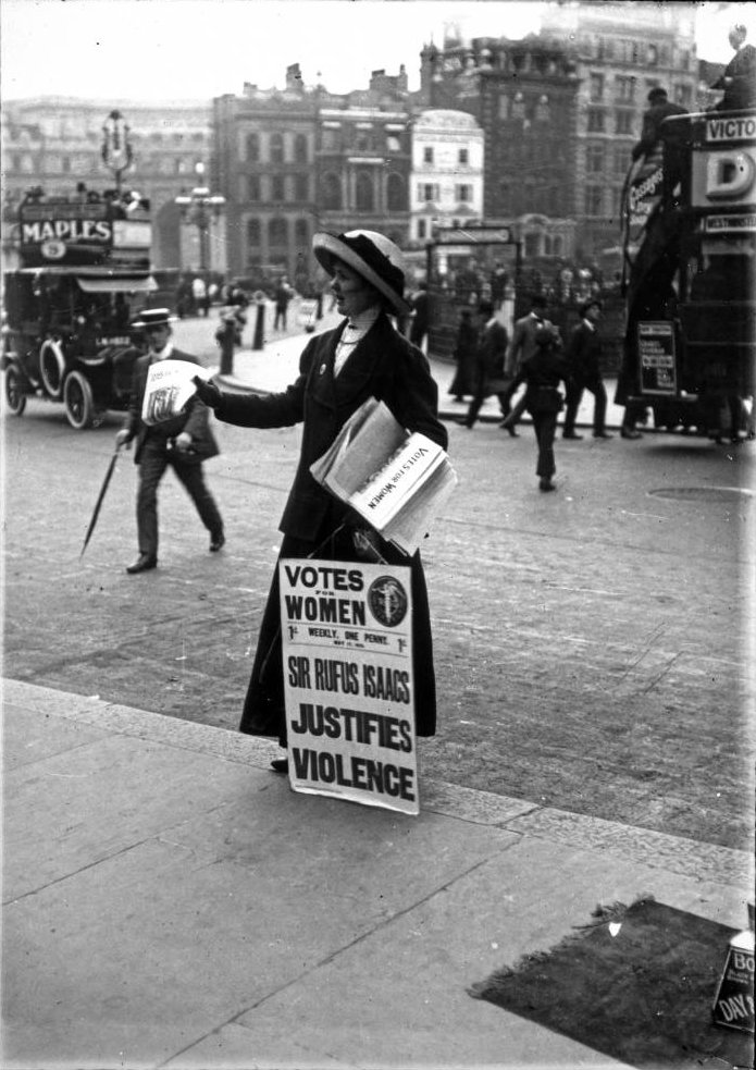 British suffragette with a poster, giving out newspapers